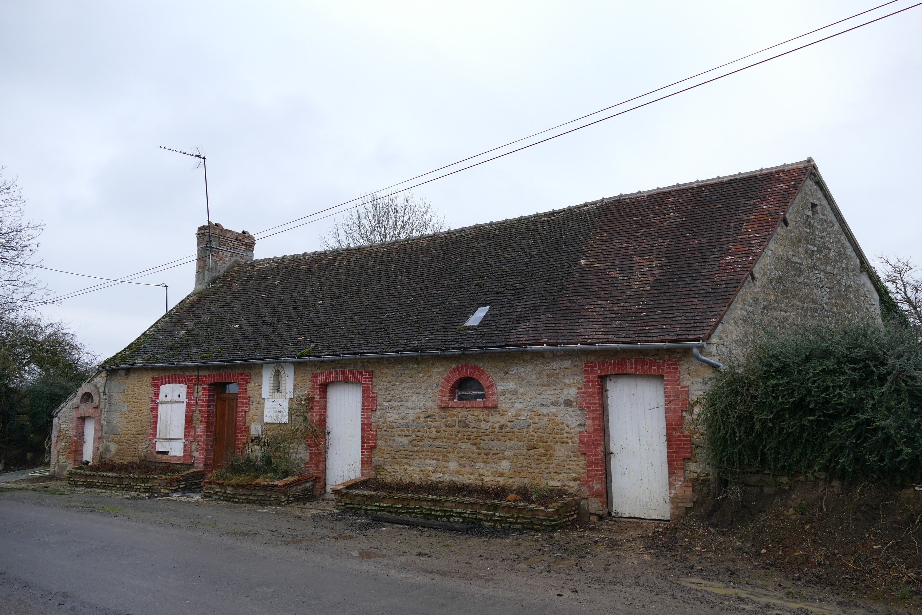 Childhood home of Saint-Teresa in Semallé (Orne, Normandie, France).